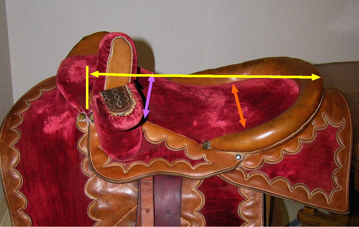 Fitting a sidesaddle to a rider: Yellow line is how to measure length, orange line shows that width is measured across the widest part of the seat, and the lavender line shows measurement of the "neck" or "twist" - the narrowest part of the seat